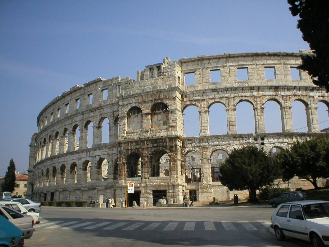 The Ancient Roman amphitheatre in Pula, Istria region, (Croatia).